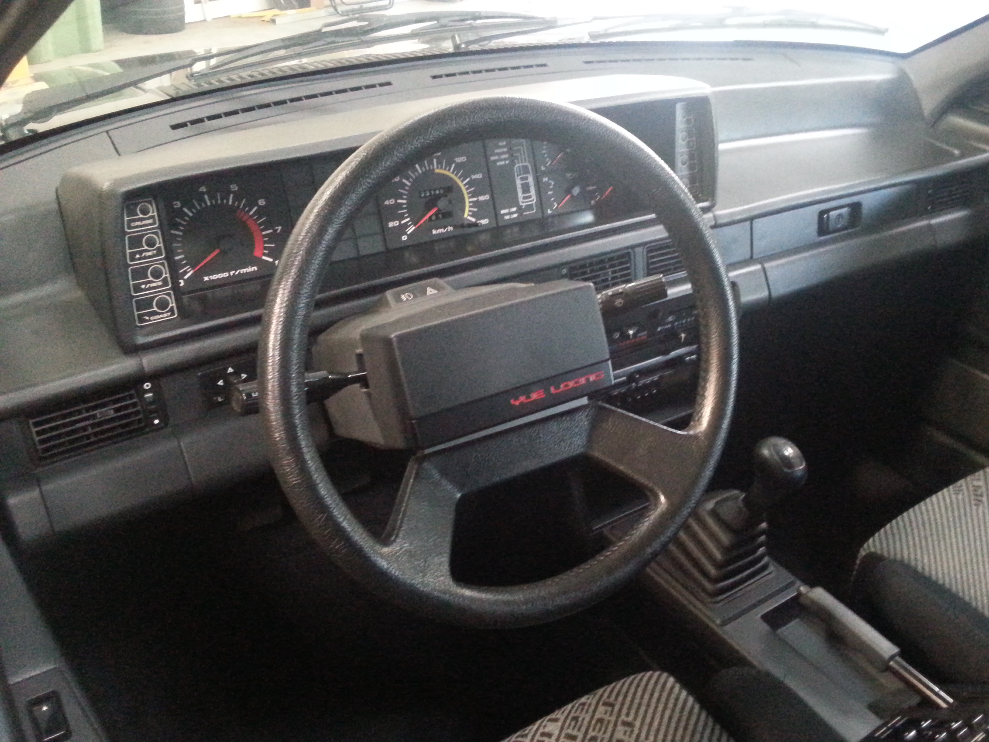 The dashboard of the only in Europe remained Yue Loong Feeling 1.8GTX.